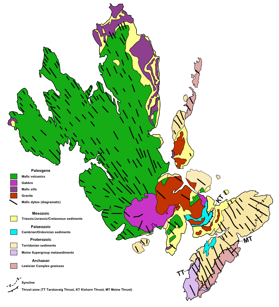 Geological map of Skye with information from British Geological Survey Geology of Britain viewer, Skye a landscape fashioned by Geology, Potts 1990, Blenkinsop & Rutter 1986 and Evans et al. 2009.